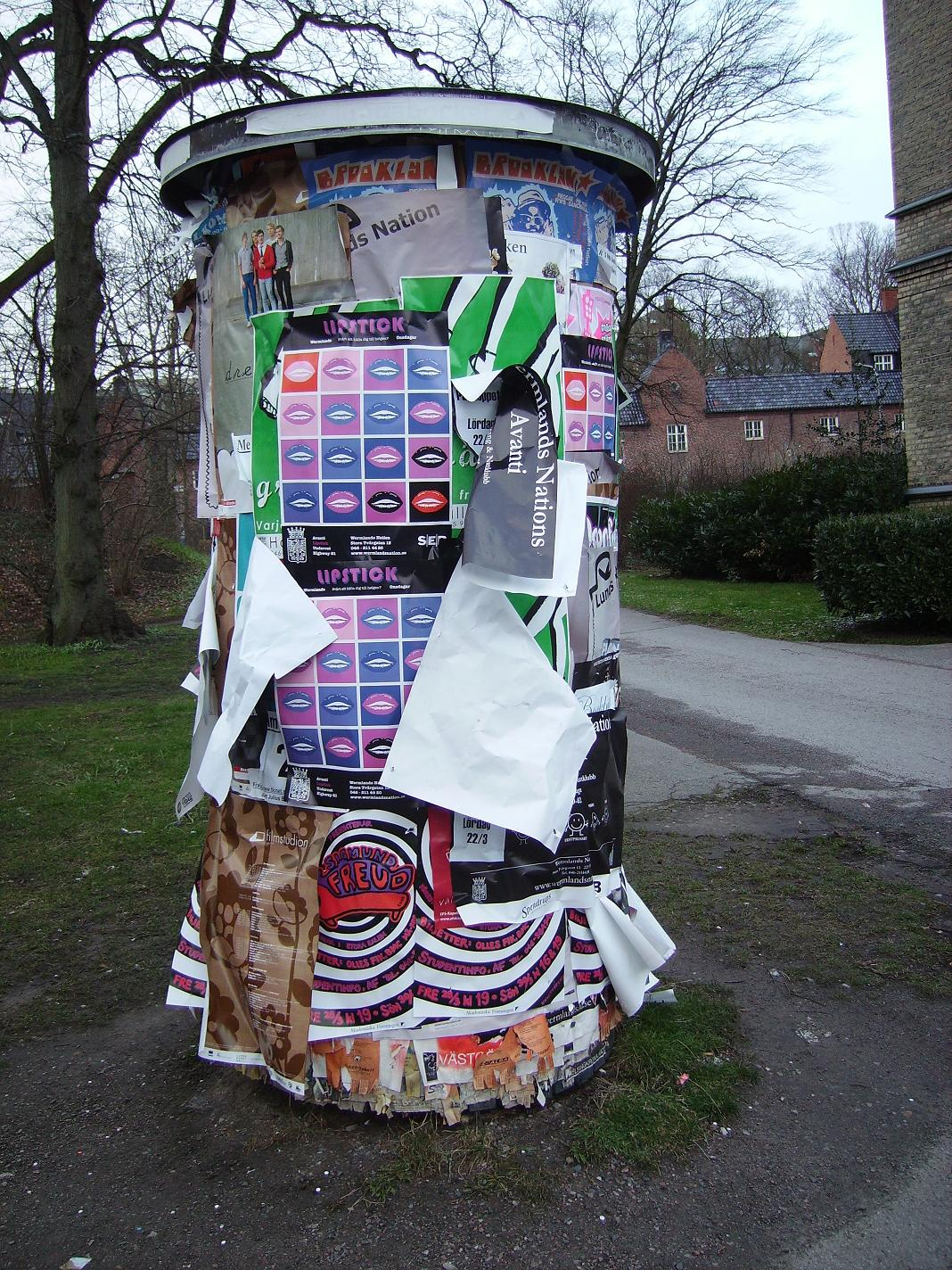 Commercial in Lund, Sweden